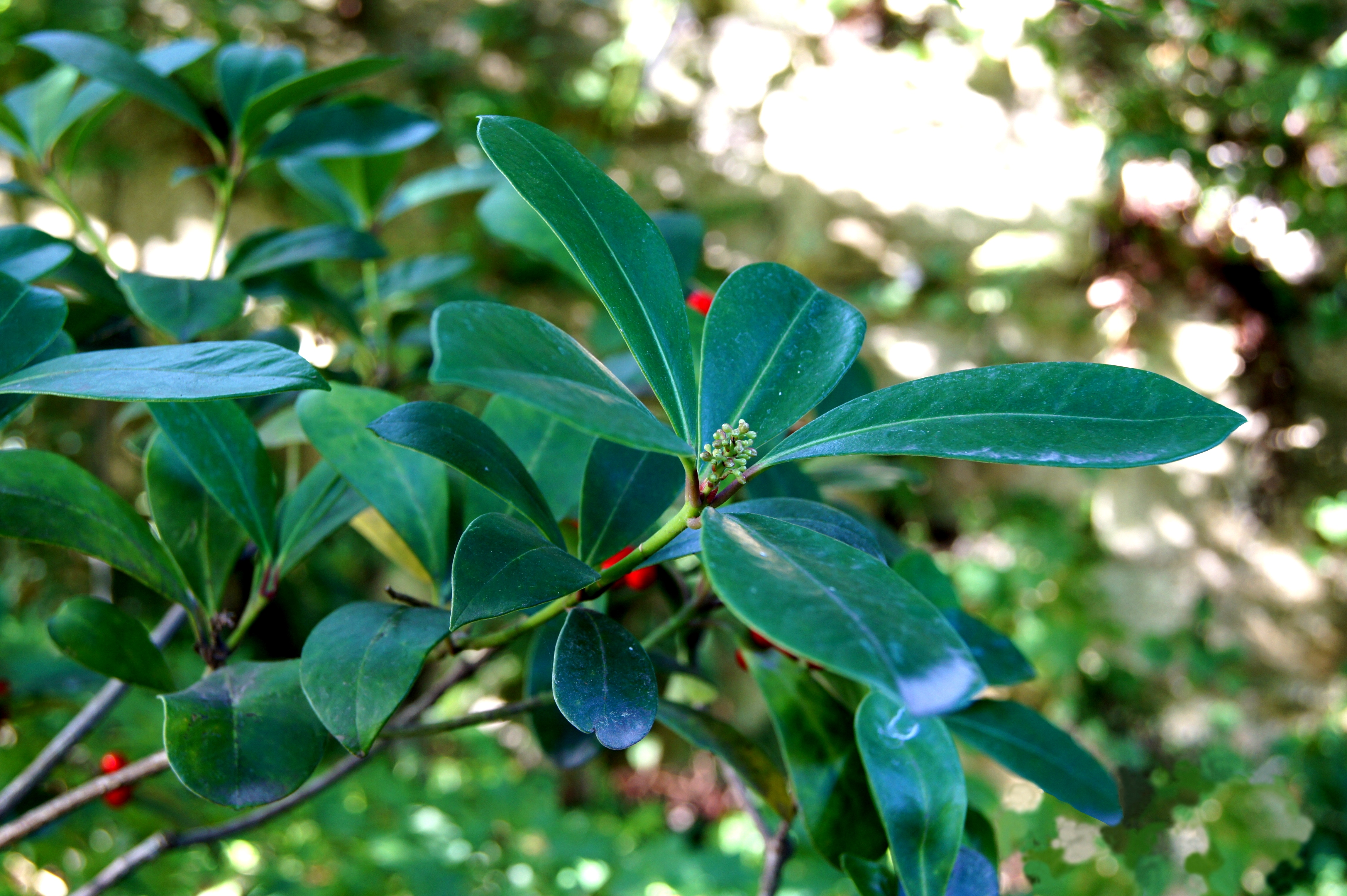 Skimmia japonica Thund., branches, buds and leaves, Alpine garden of the Jardin des Plantes of Paris